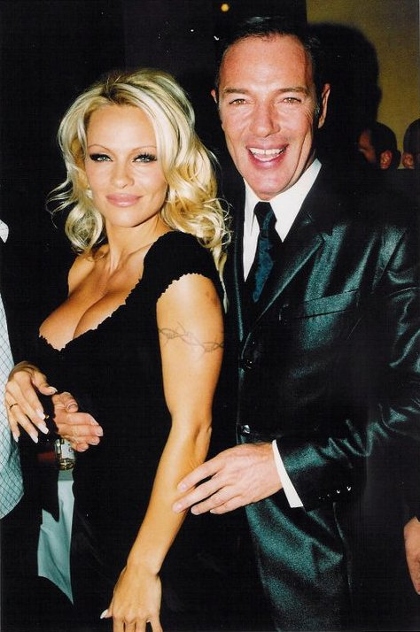 Tony gomez et pamela anderson